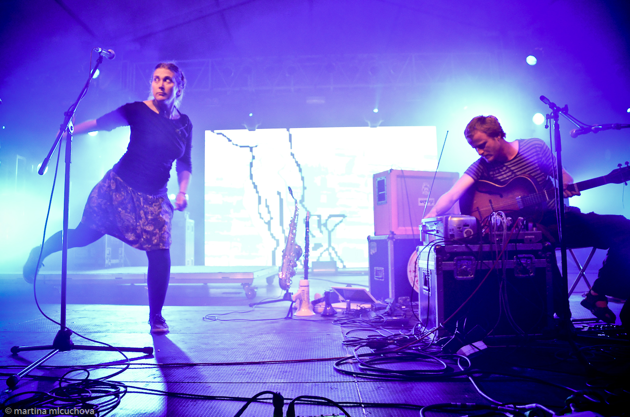 DVA at Grape Festival 2011.